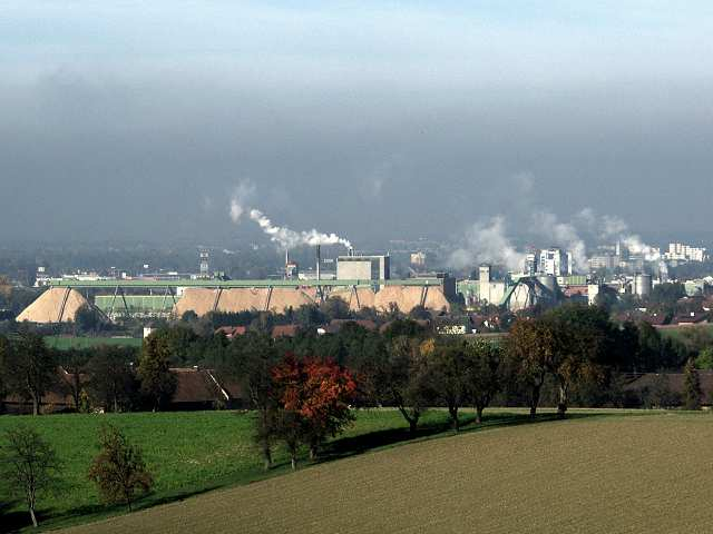 Papermill smurfit kappa Nettingsdorfer, Austria